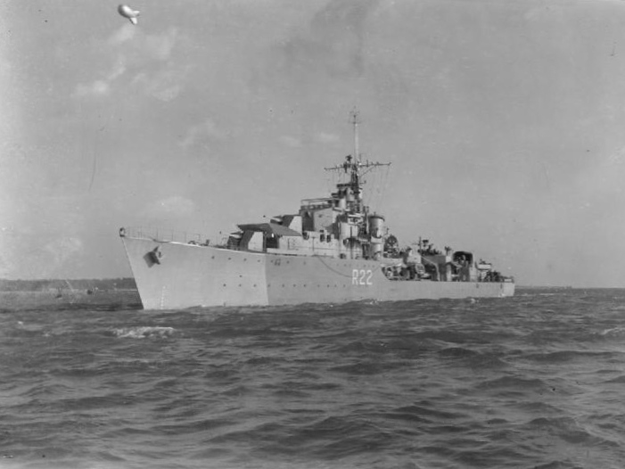 Photograph of British destroyer HMS Ursa.